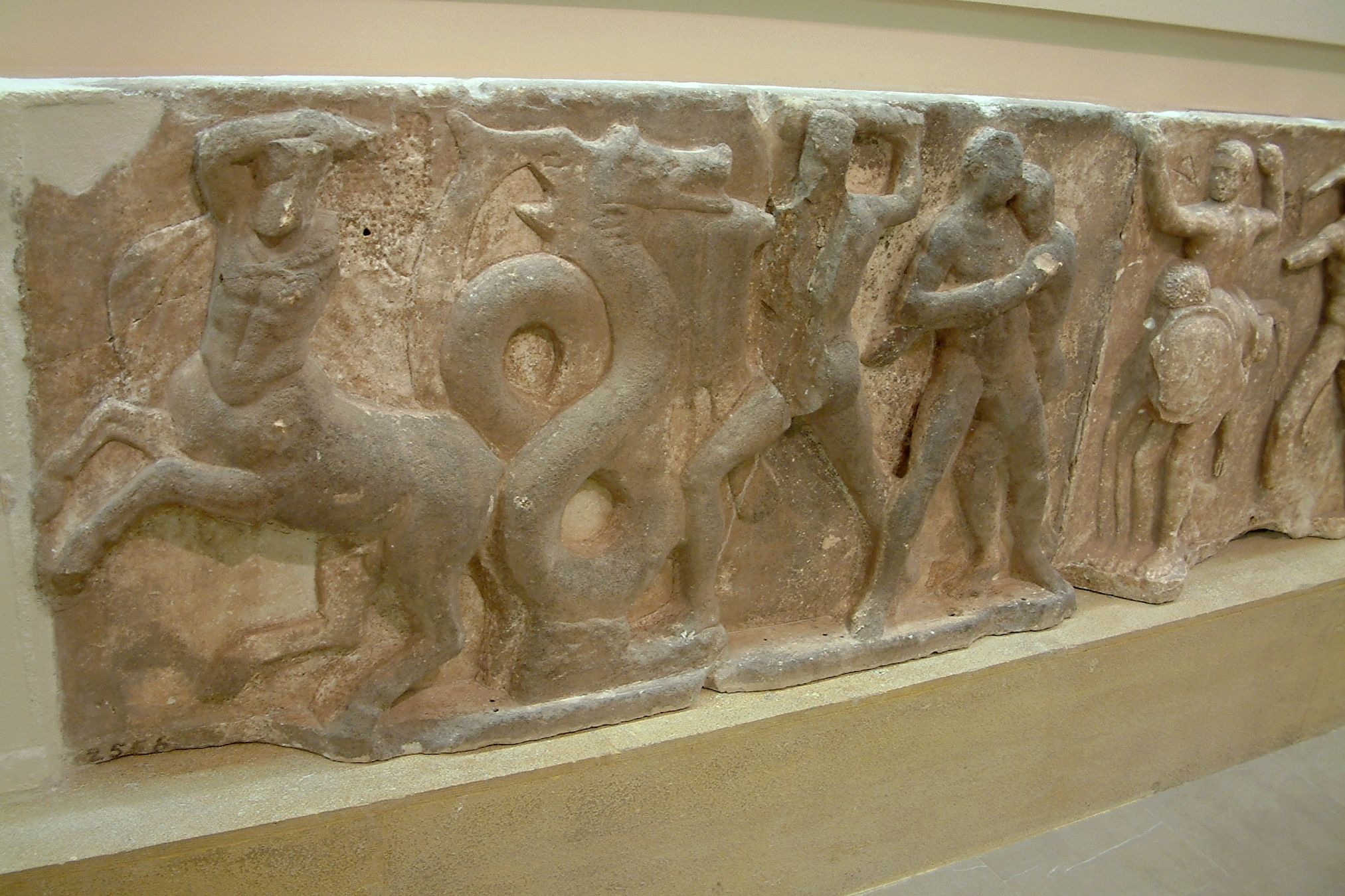 Roman relief from the theater, done apparently because of Nero's visit, 1st century AD. Archaeological Museum of Delphi.